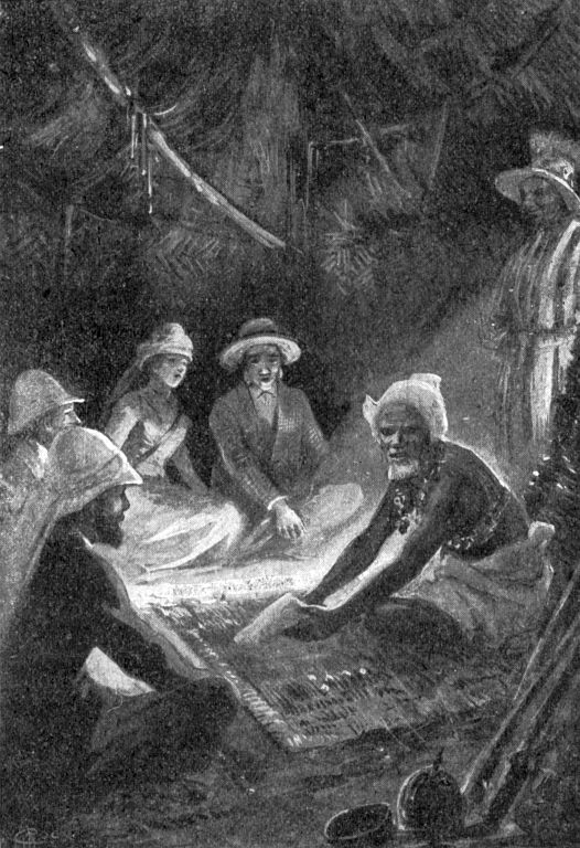 An illustration from Jules Verne's novel "The Barsac Mission" drawn by George Roux.